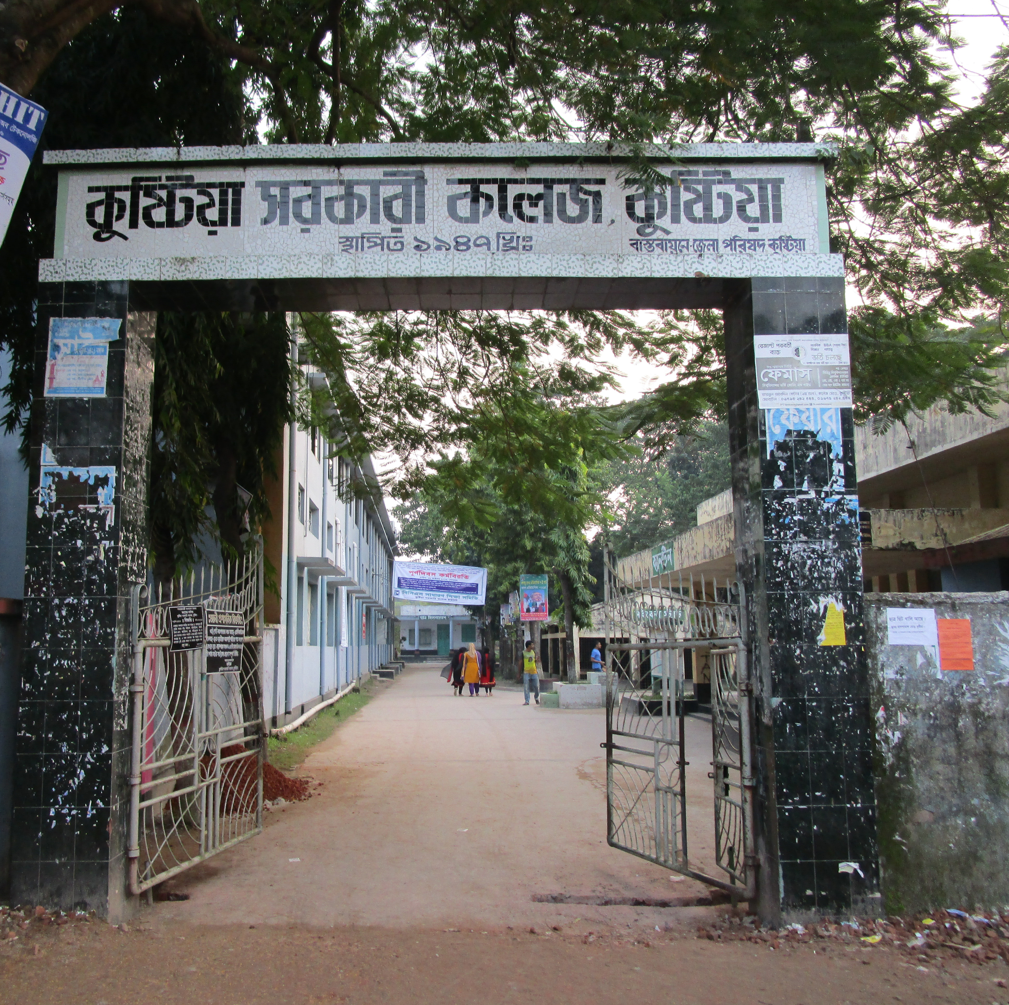 Kushtia Govt College Nameplate.